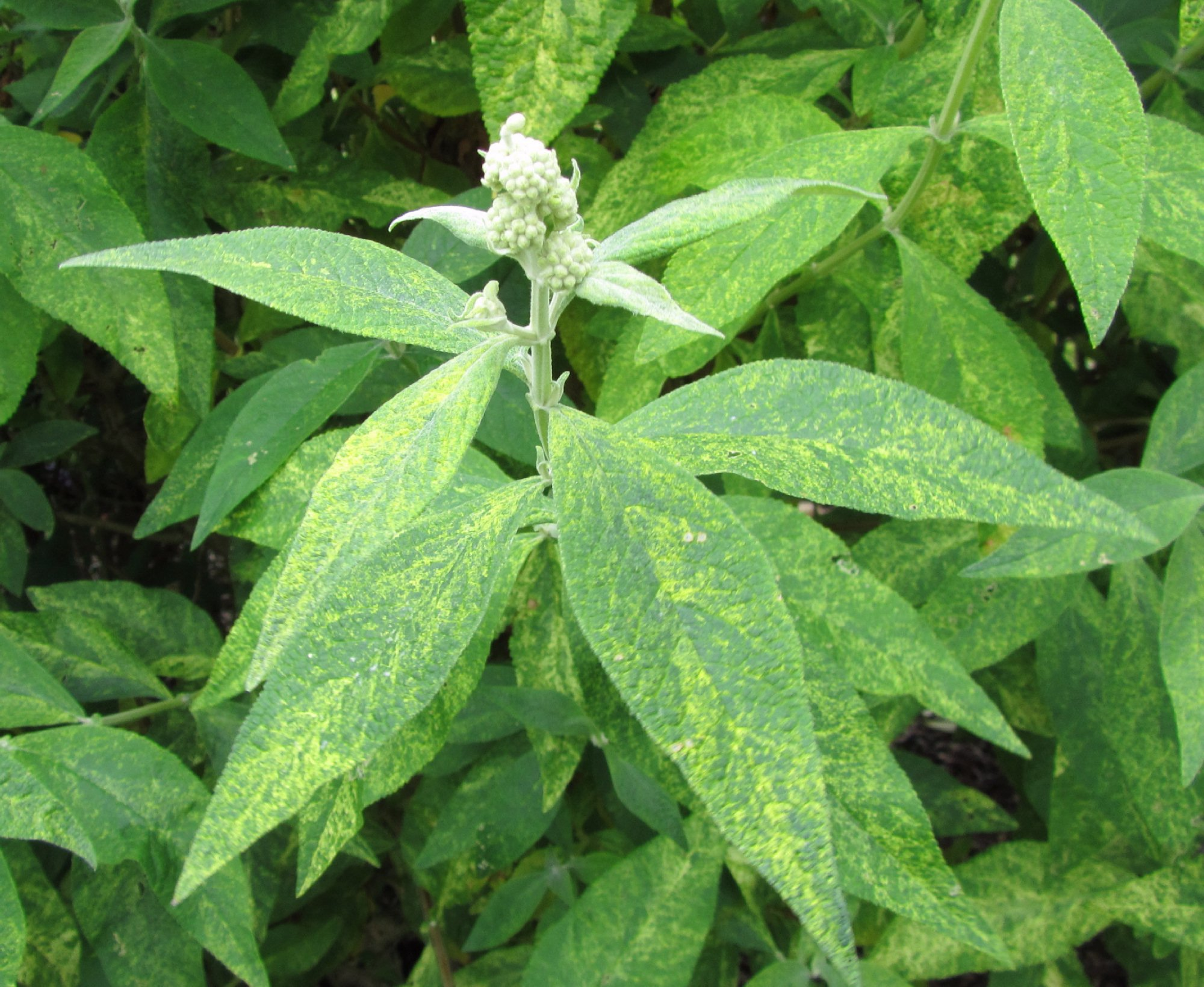 Foliage of Buddleja x weyeriana Flight's Fancy